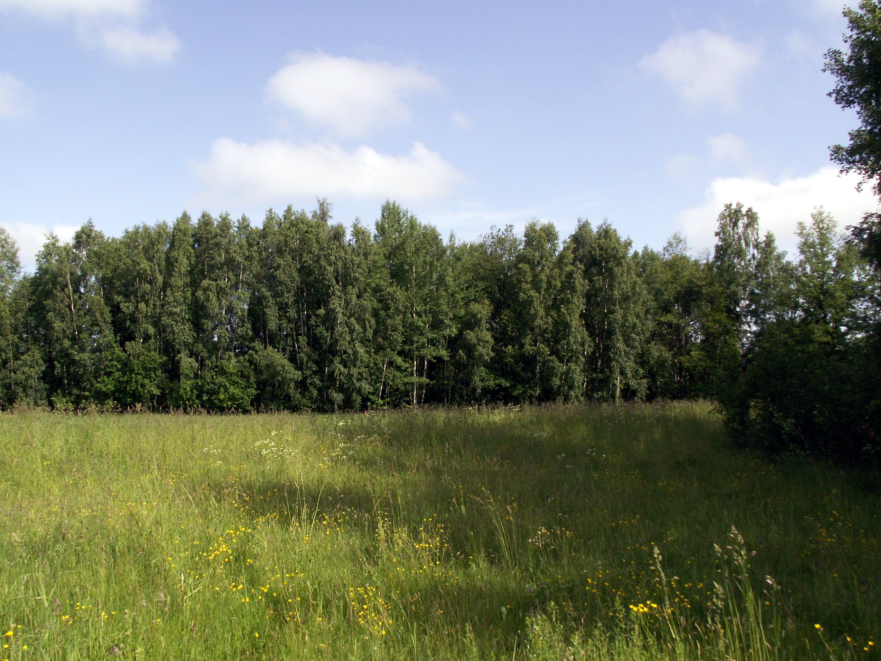 Hillfort Kačaičiai, Kretinga district, Lithuania